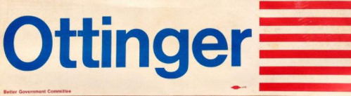 Bumper sticker from Richard Ottinger's 1970 senatorial campaign